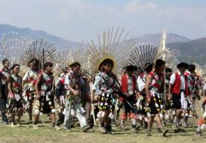 Poumai Glory Day Festival